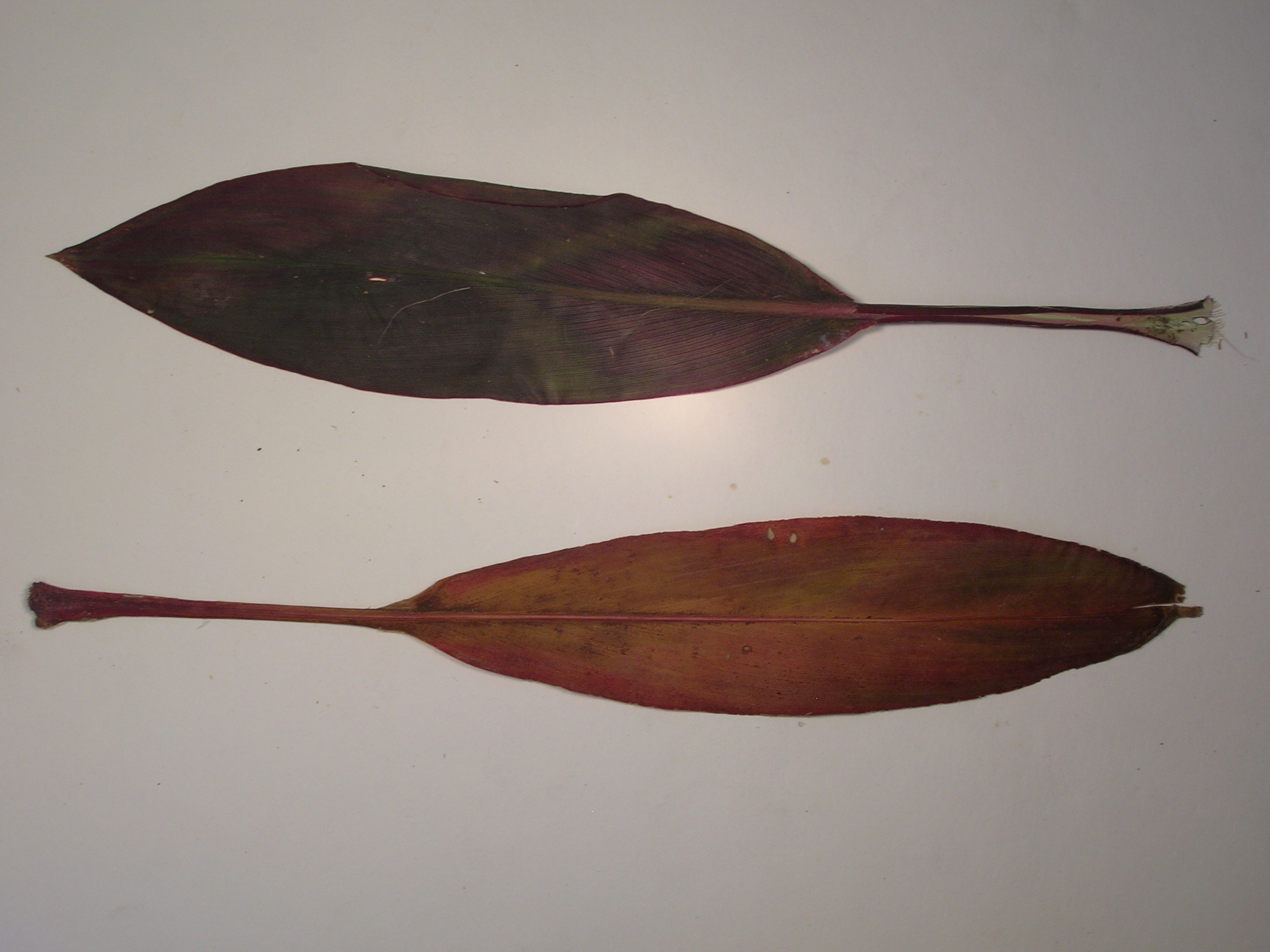 Cordyline fruticosa (voucher 080607 13). Location: Midway Atoll, 4208 Commodore Ave Sand Island